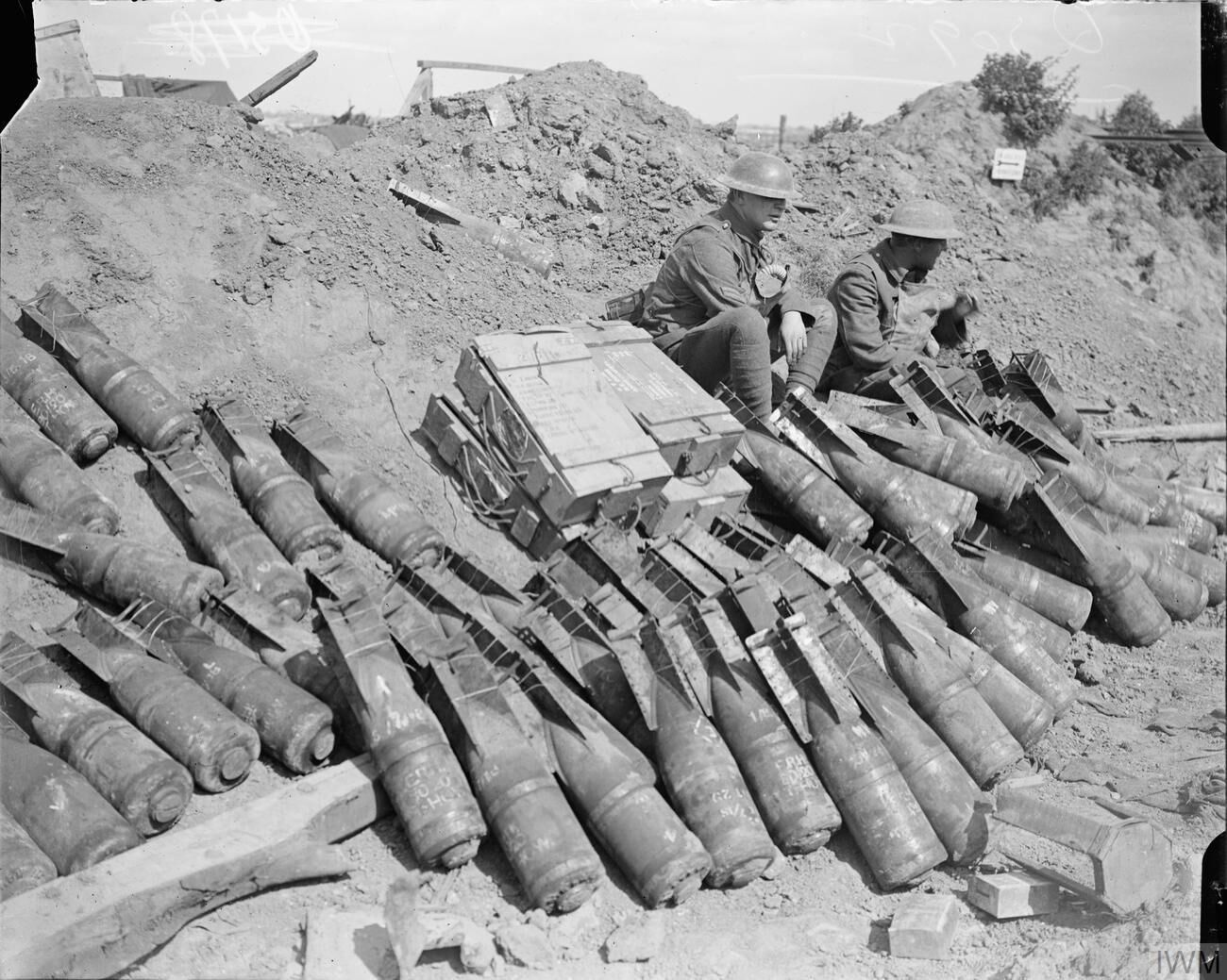 THE ROYAL SUSSEX REGIMENT DURING THE FIRST WORLD WAR Description: Two men of the 9th Battalion, Royal Sussex Regiment sit beside a dump of trench mortar bombs, near Lens. Comment : these are Newton 6 inch Mortar bombs.